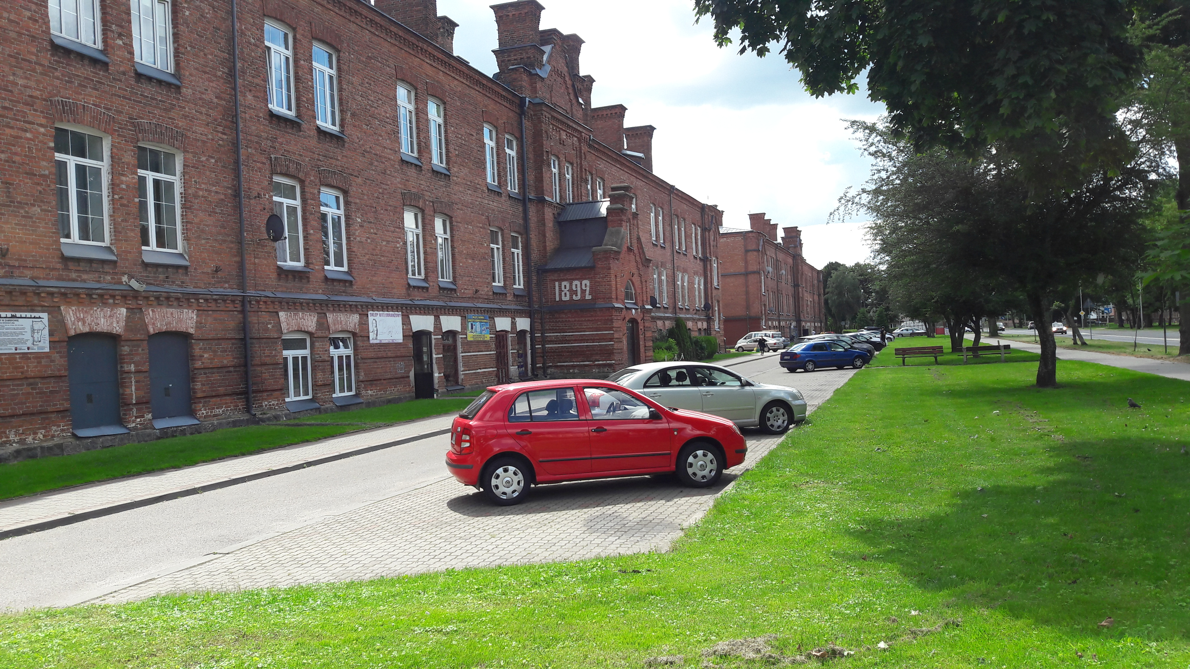 Zespół koszar carskich